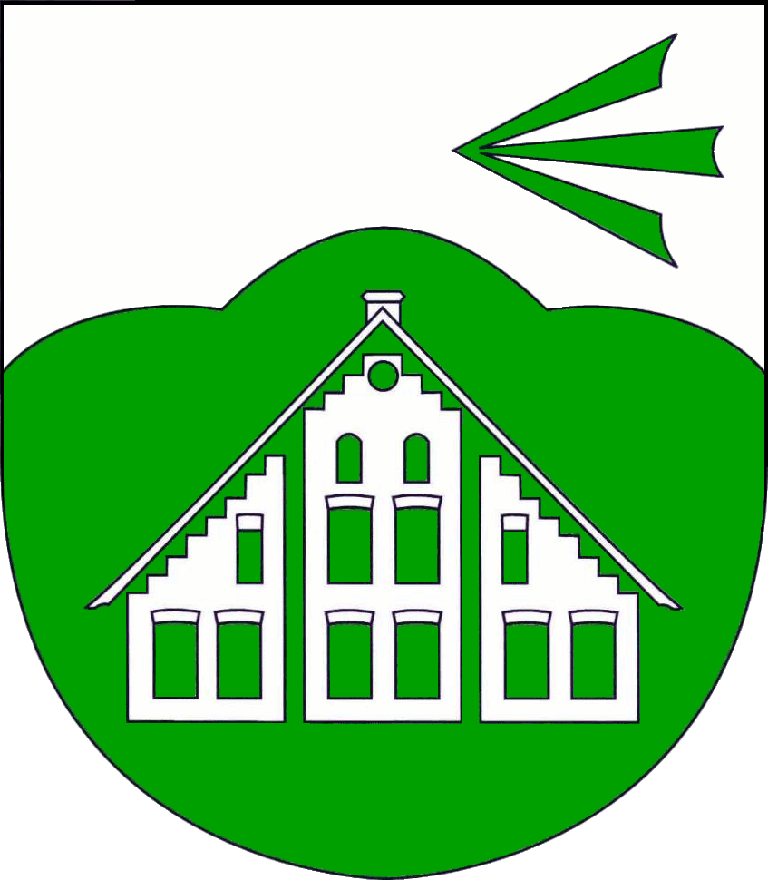 Coat of arms of the municipality Bliestorf in Schleswig-Holstein, Germany.